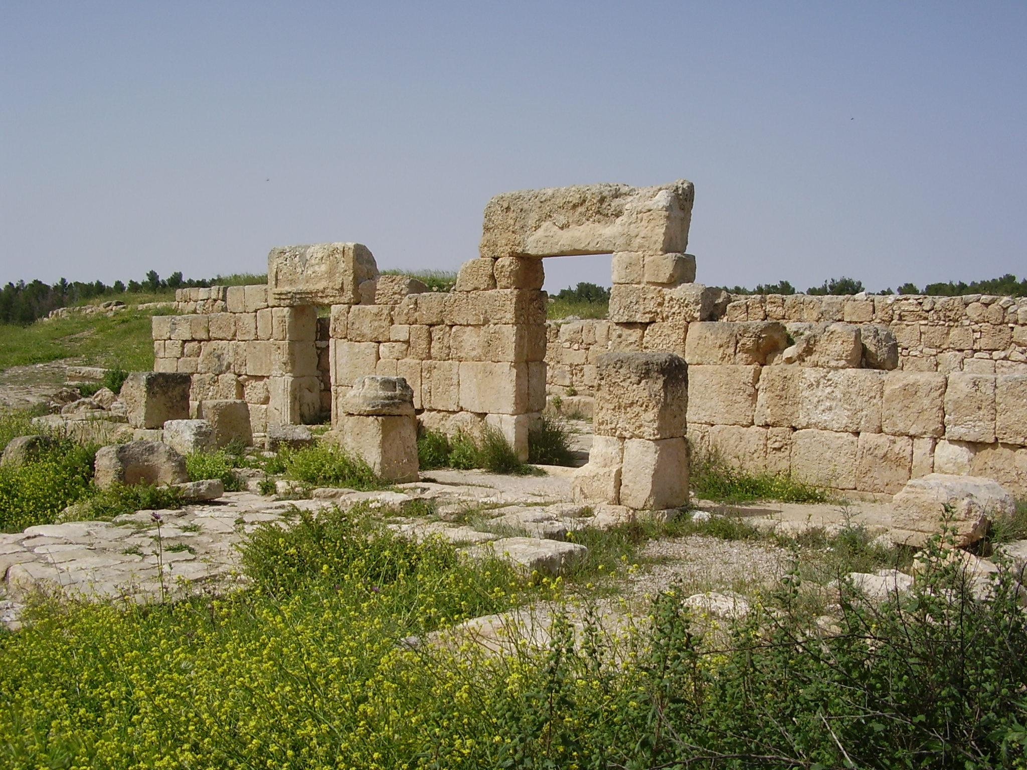 old synagogue in khurvat anim in yatir forest